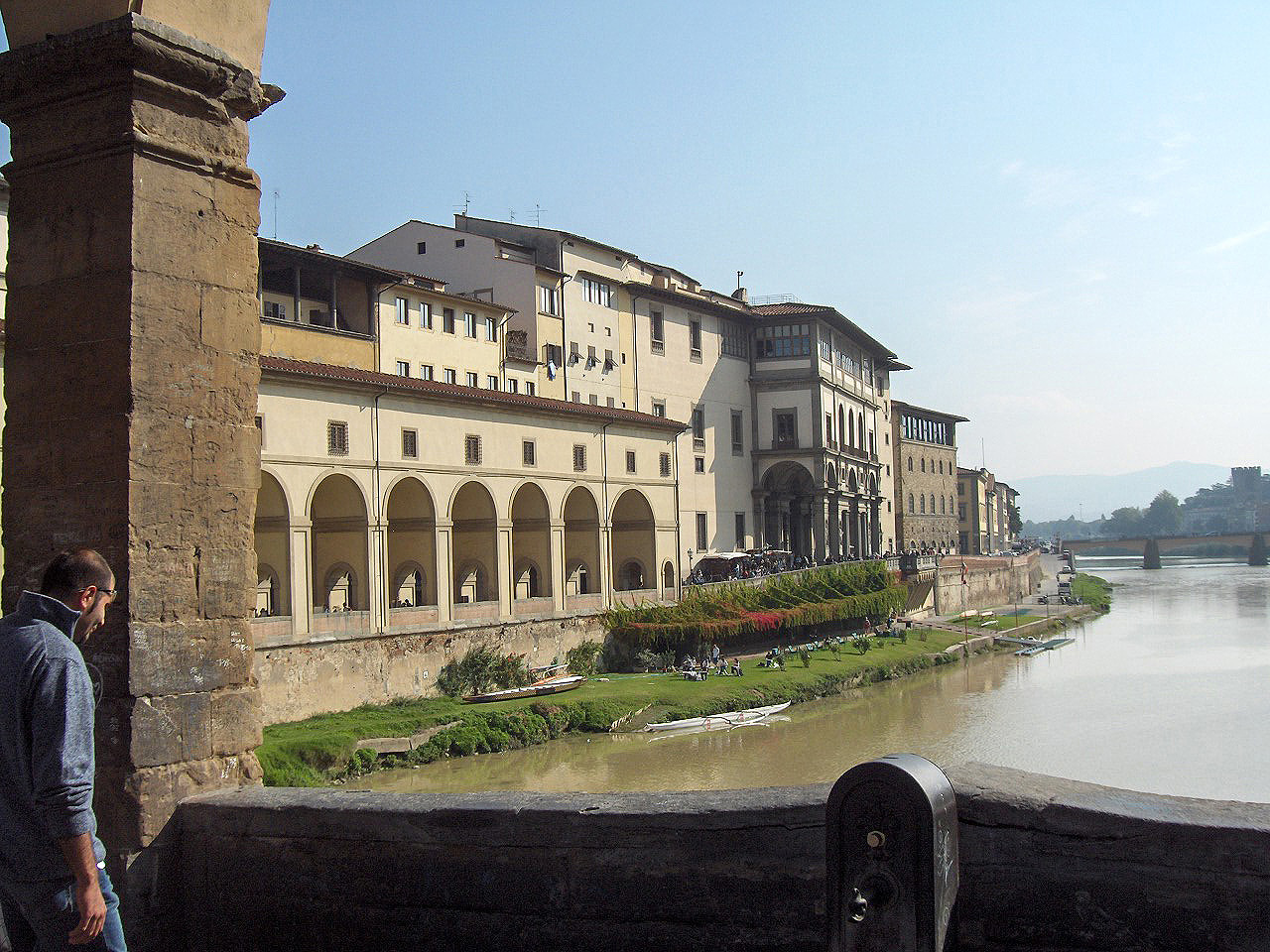 The banks of the river Arno, seen from the Bridge Ponte Vecchio; Florence, Italy. Own photo - photo made by Georges Jansoone on 13 October 2005